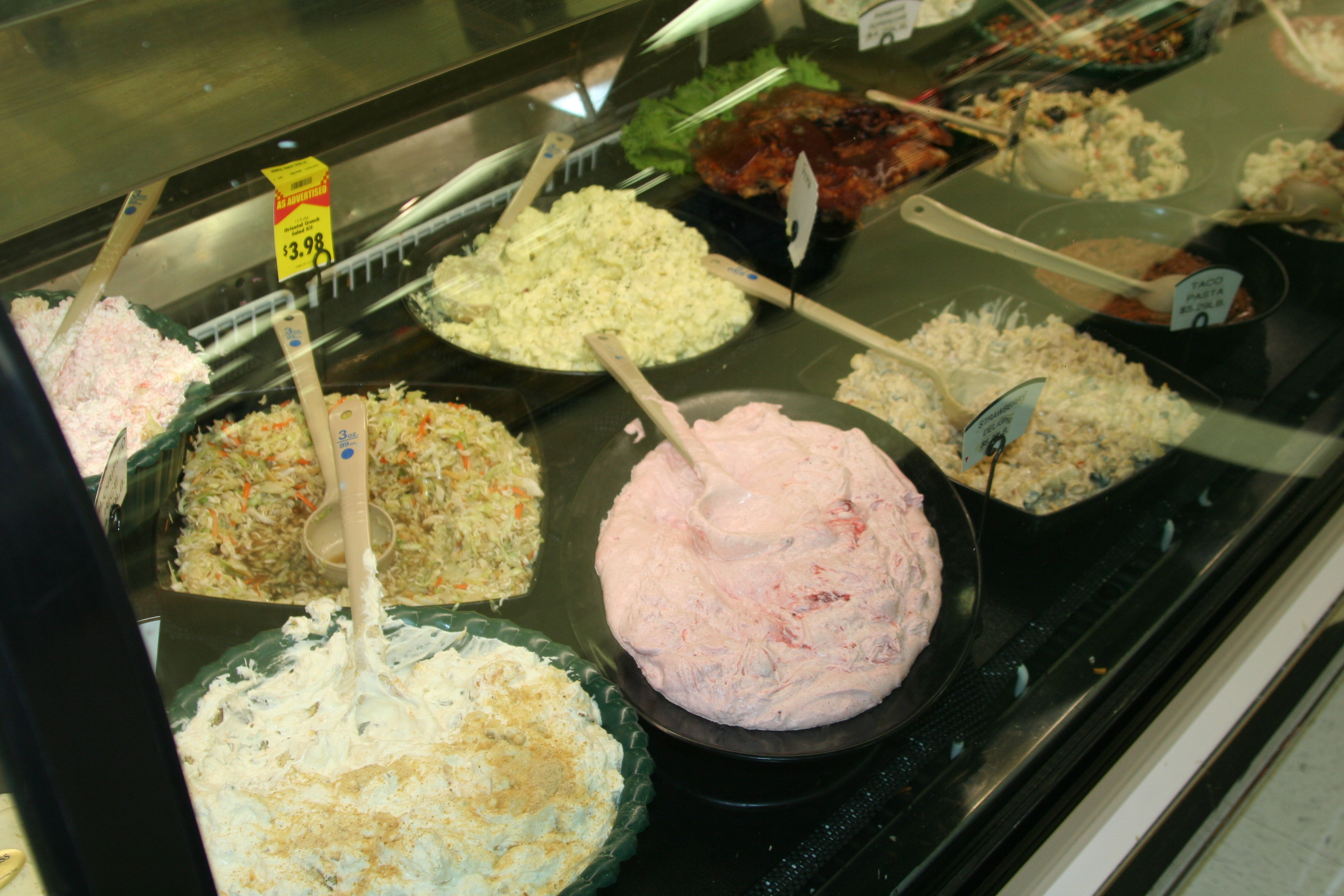 (clockwise from bottom) Cookie salad, oriental crunch salad, glorified rice (in corner), potato salad, a pasta salad, strawberry delight. As a courtesy, please let me know when this photograph is used.